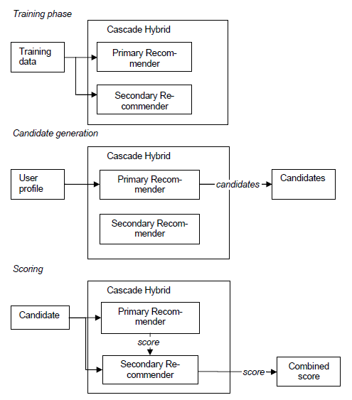 Sistema de Recomanació Híbrid, Cascada